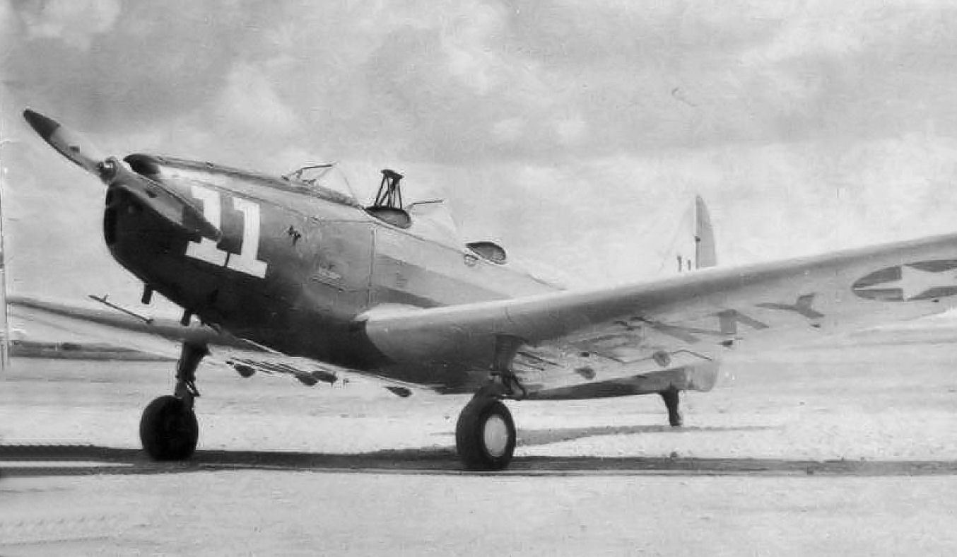 Hicks Field - Fairchild PT-19 Closeup